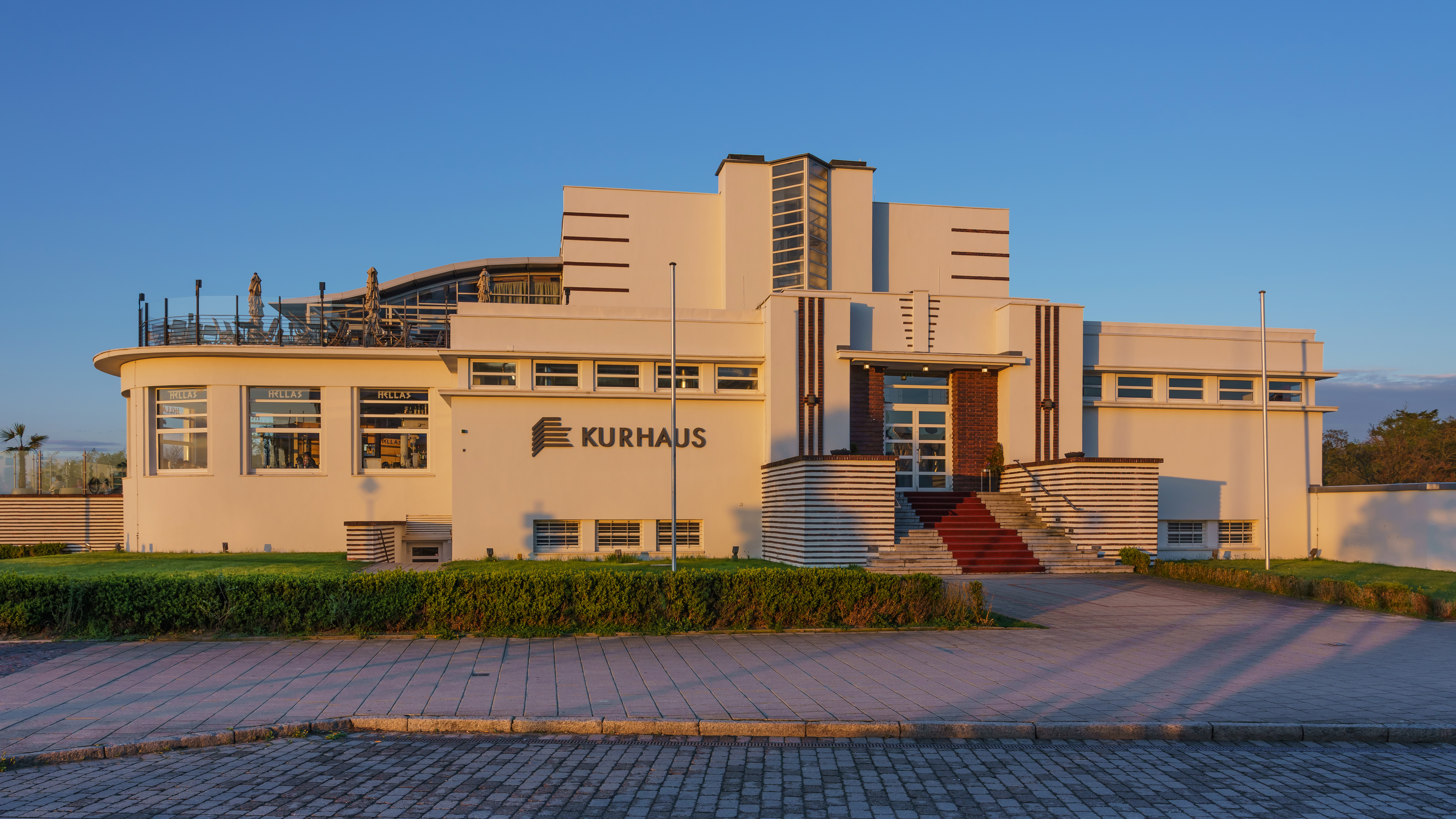 Spa Hall in Warnemünde, Rostock, Germany